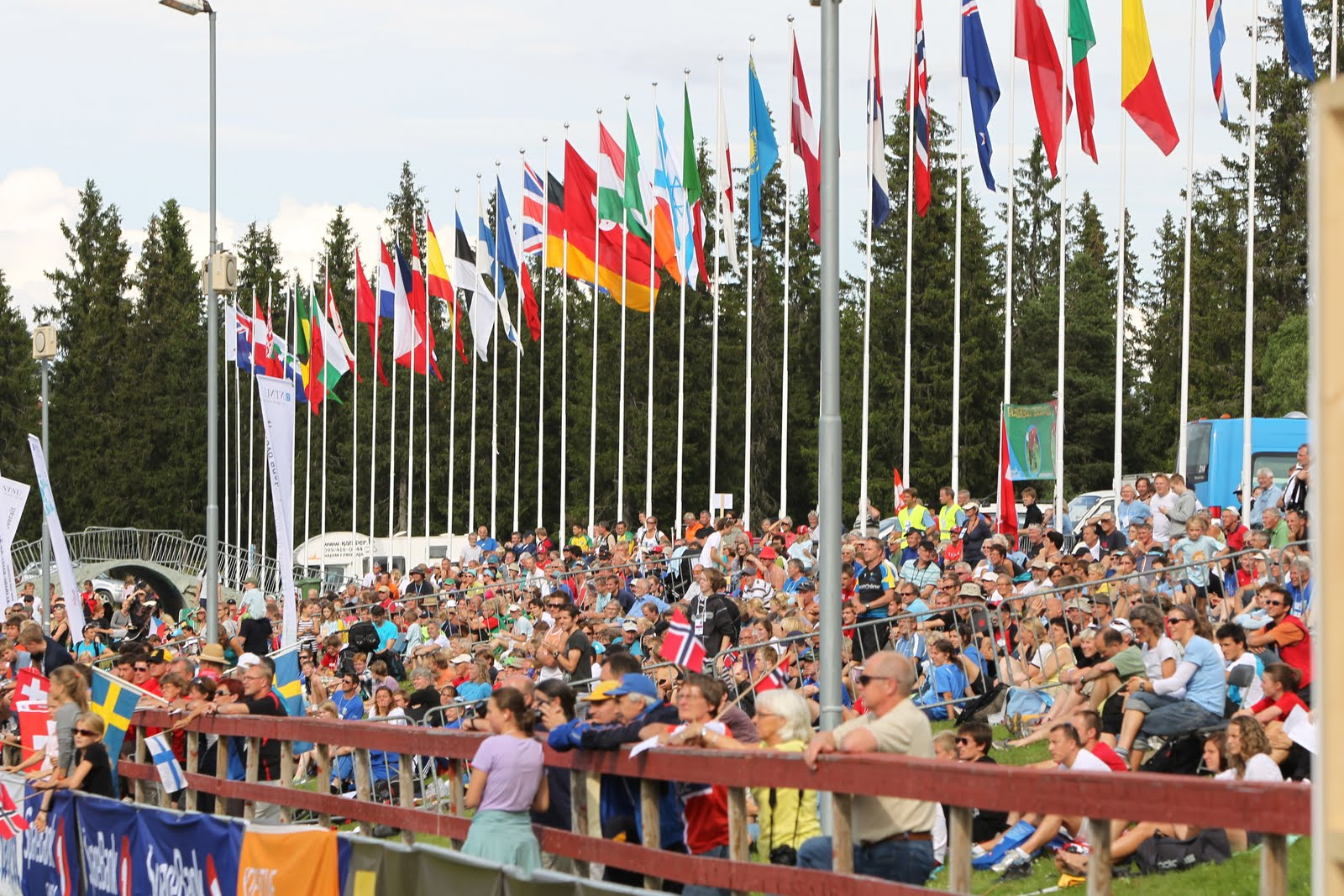 World Orienteering Championships 2010 in Trondheim, Norway